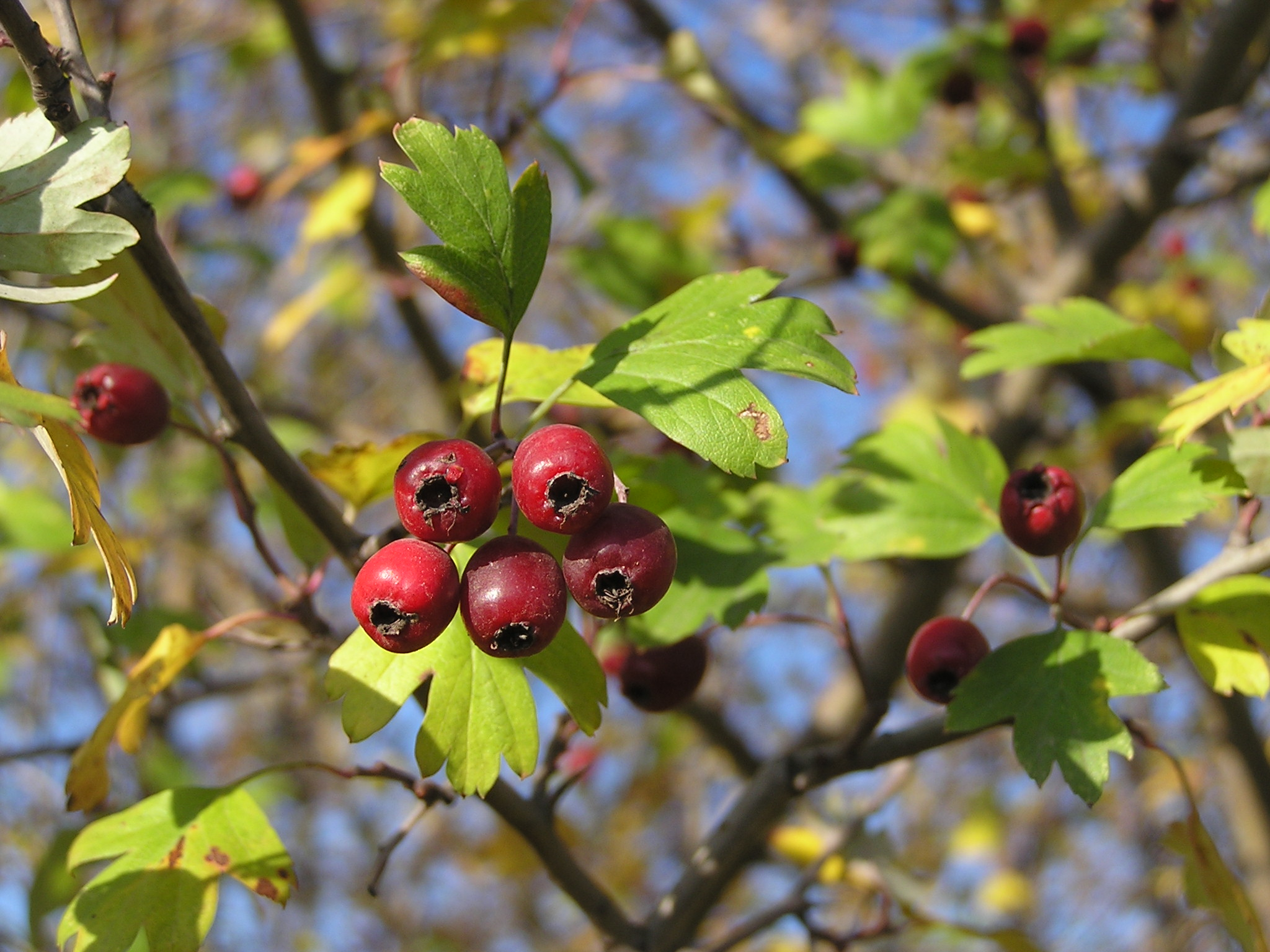 Crataegus monogyna